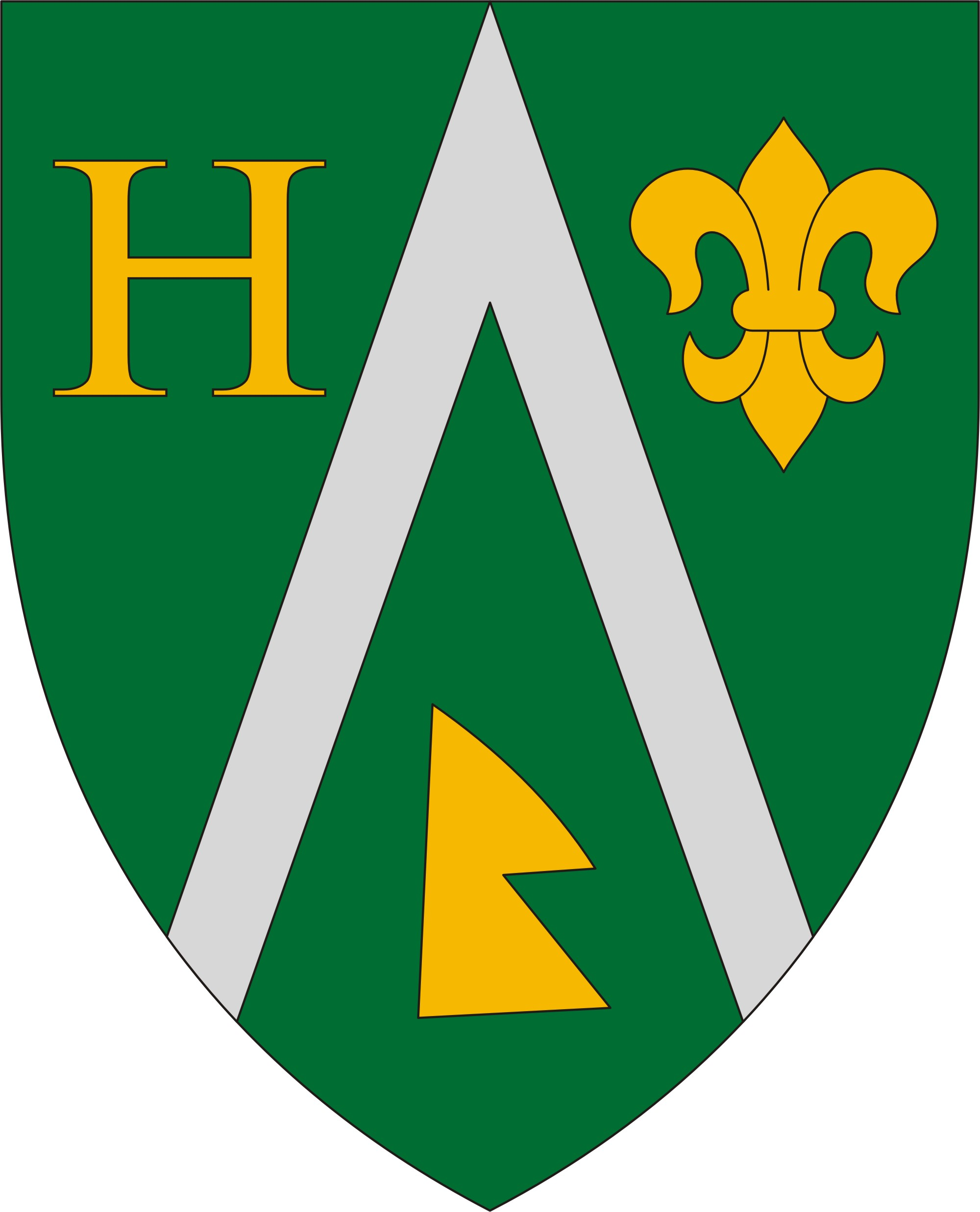 Coat of arms of Hosztót, Hungary